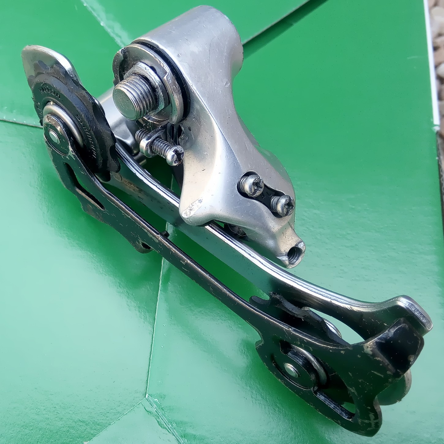 Rear derailleur with 3 settings, maximum and minimum extension and distance from the sprocket set